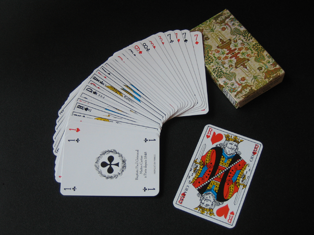 Picture of a French Piquet deck. Purchased in Paris at Galeries Lafayette for E3.50